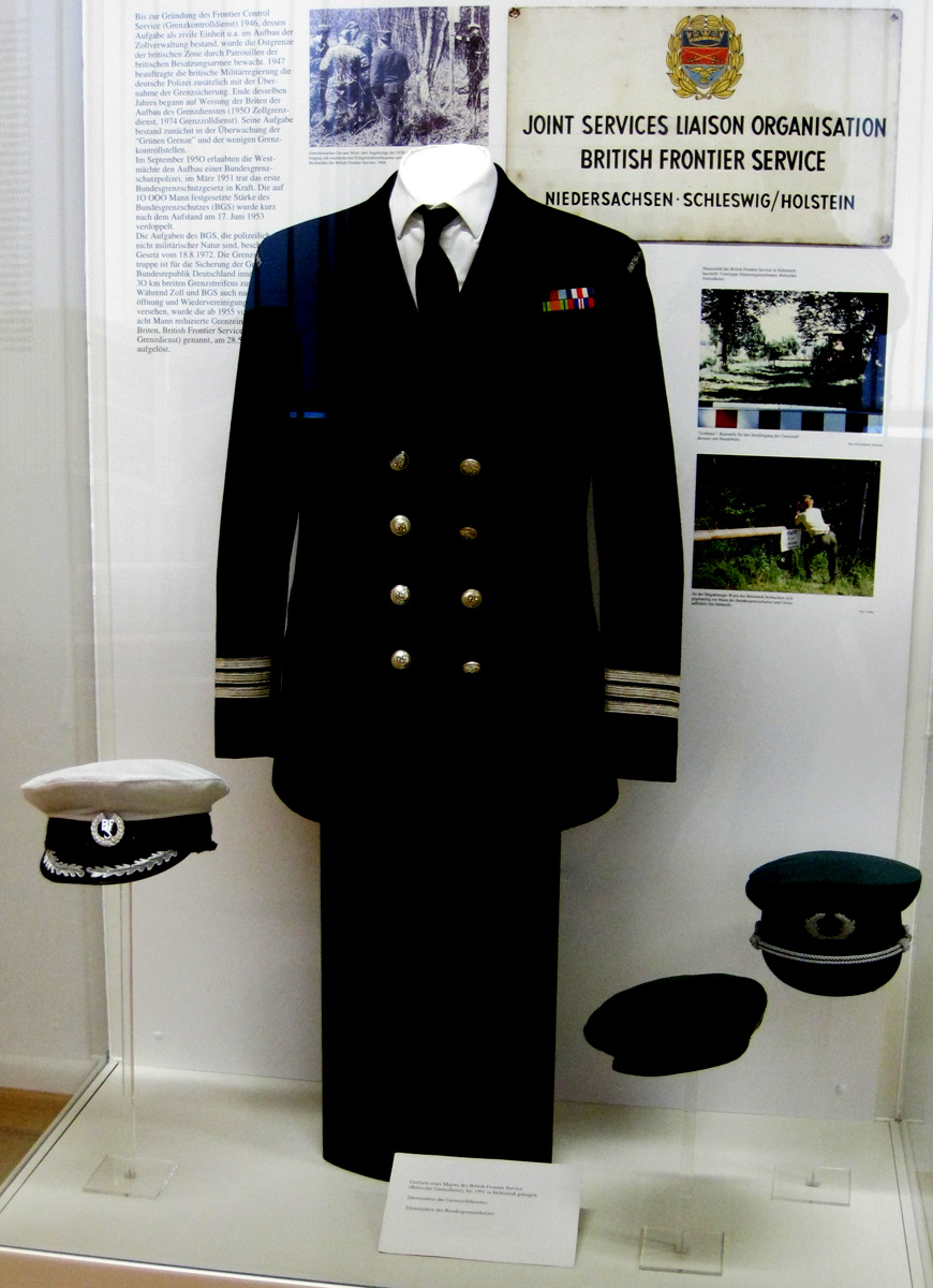 Uniform and headgear of the British Frontier Service. On display at the Zonengrenz-Museum, Helmstedt.